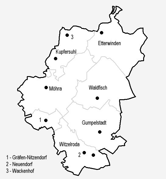 District-Maps of Moorgrund.